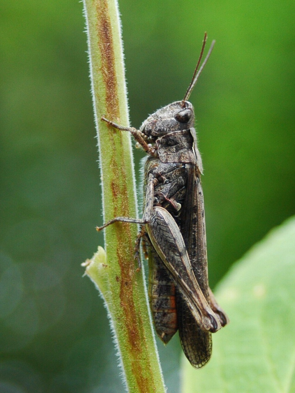 Glyptobothrus brunneus brunneus (Thunberg, 1815), syn. Chorthippus (Glyptobothrus) brunneus brunneus Localization: Czech Republic, Stříbro, Nature reserve Petrské údolí 49°46'25.4"N,13°0'56.13"E [1]